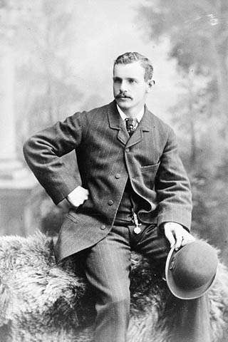 Ned Hanlan in 1878. Photo taken in Montreal, Canada.